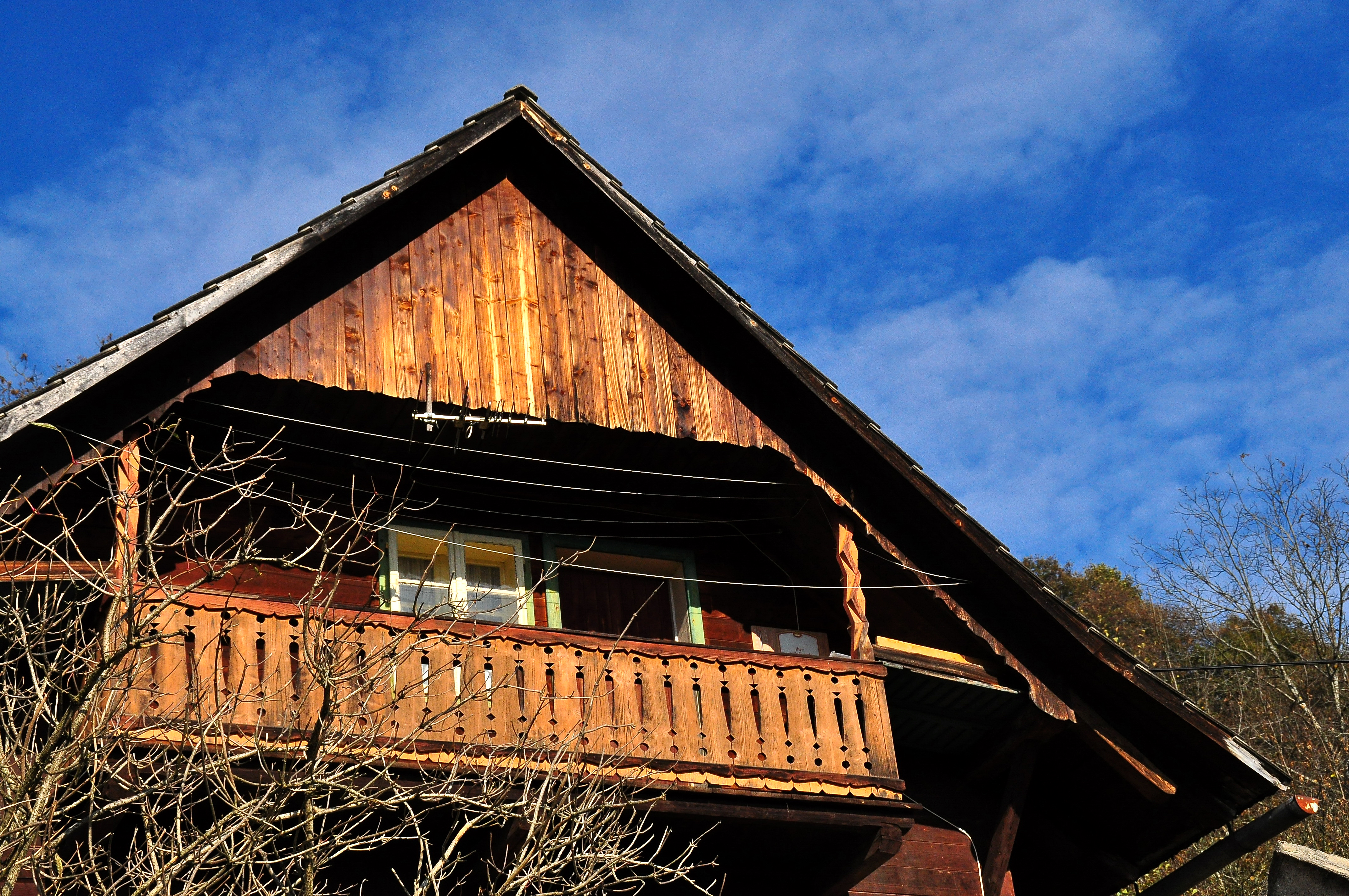 Wooden house at the village Pernegg in the municipality Feldkirchen, district Feldkirchen, Carinthia, Austria